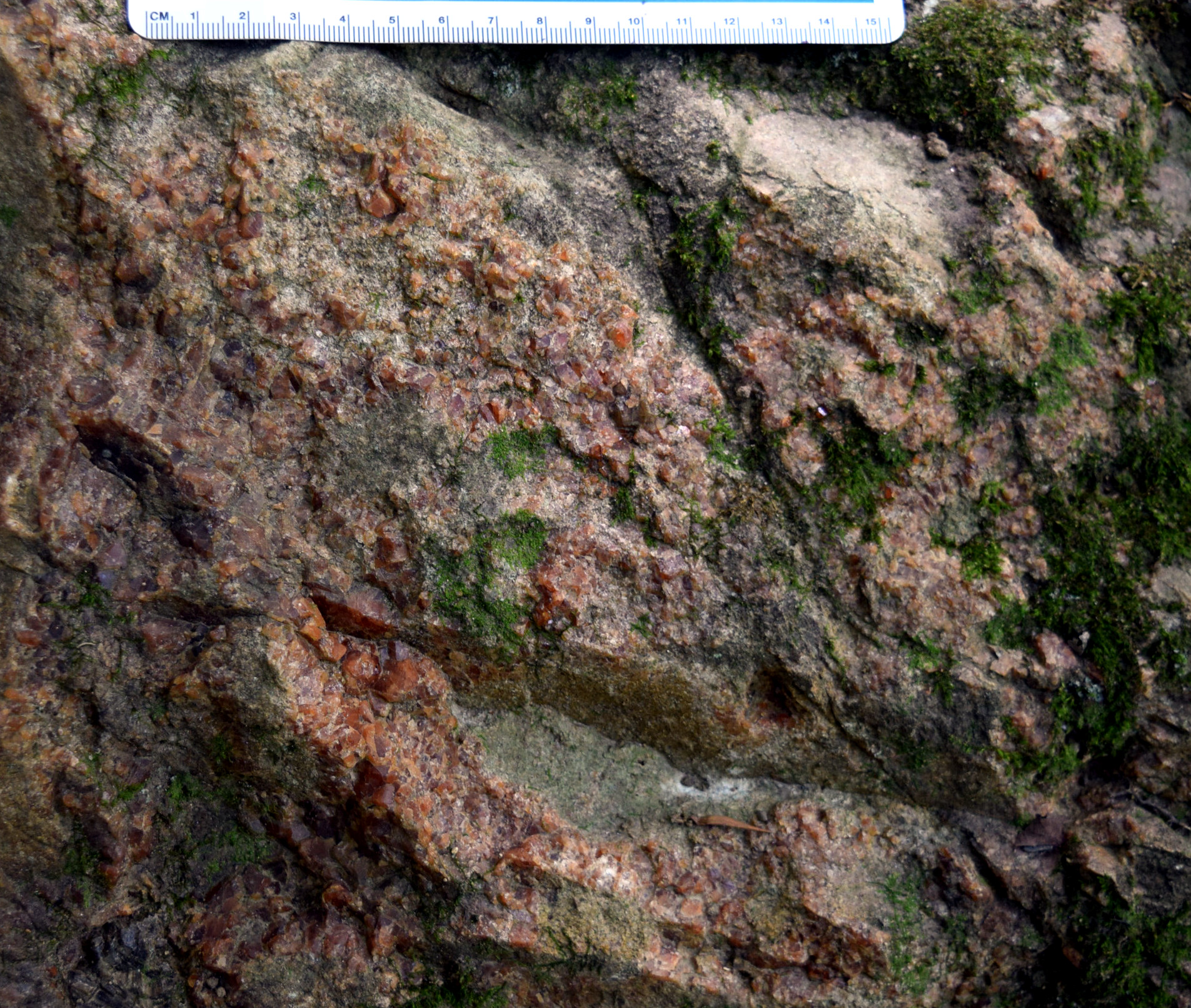 The picture shows a boulder of reddish appearance together with a scale bar. The boulder is a massive garnet with few visible crystals on the surface. The surface has been exposed to the elements and is partly covered by moss. The picture was taken in Redding, Connecticut, close to the train station. Coordinates: 41°19'21.6"N 73°26'17.3"W Literature reference: W. M. Algar & P. Krieger: "Garnet rock near West Redding, Connecticut". American Journal of Science 1932